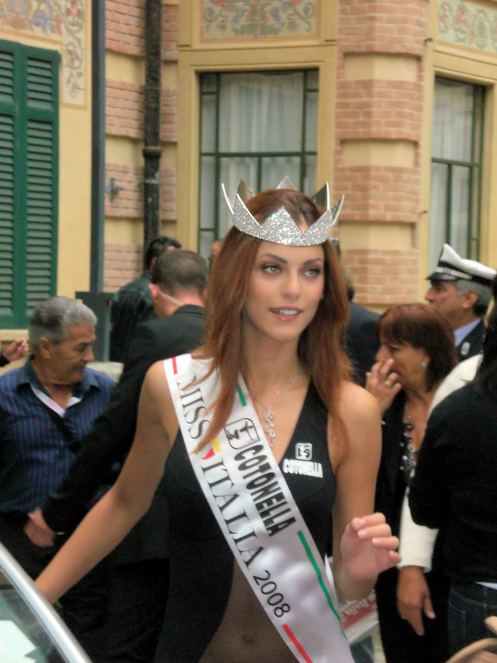 Miss Italy, Miriam Leone.